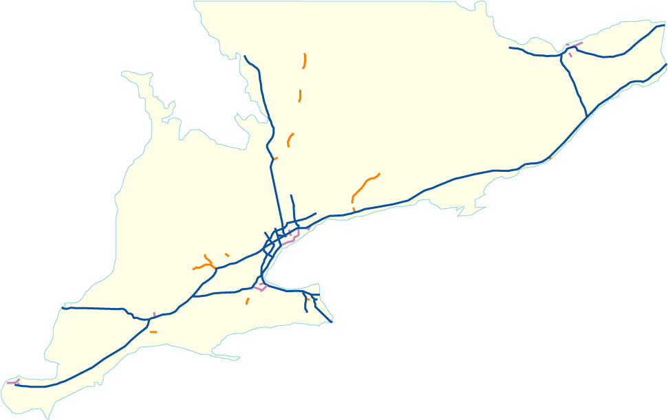 The freeway network in Southern Ontario, including the 400-Series Highways (blue), Provincial controlled-access freeways not designated as part of the 400-Series system (orange), and Municipal expressways (purple)